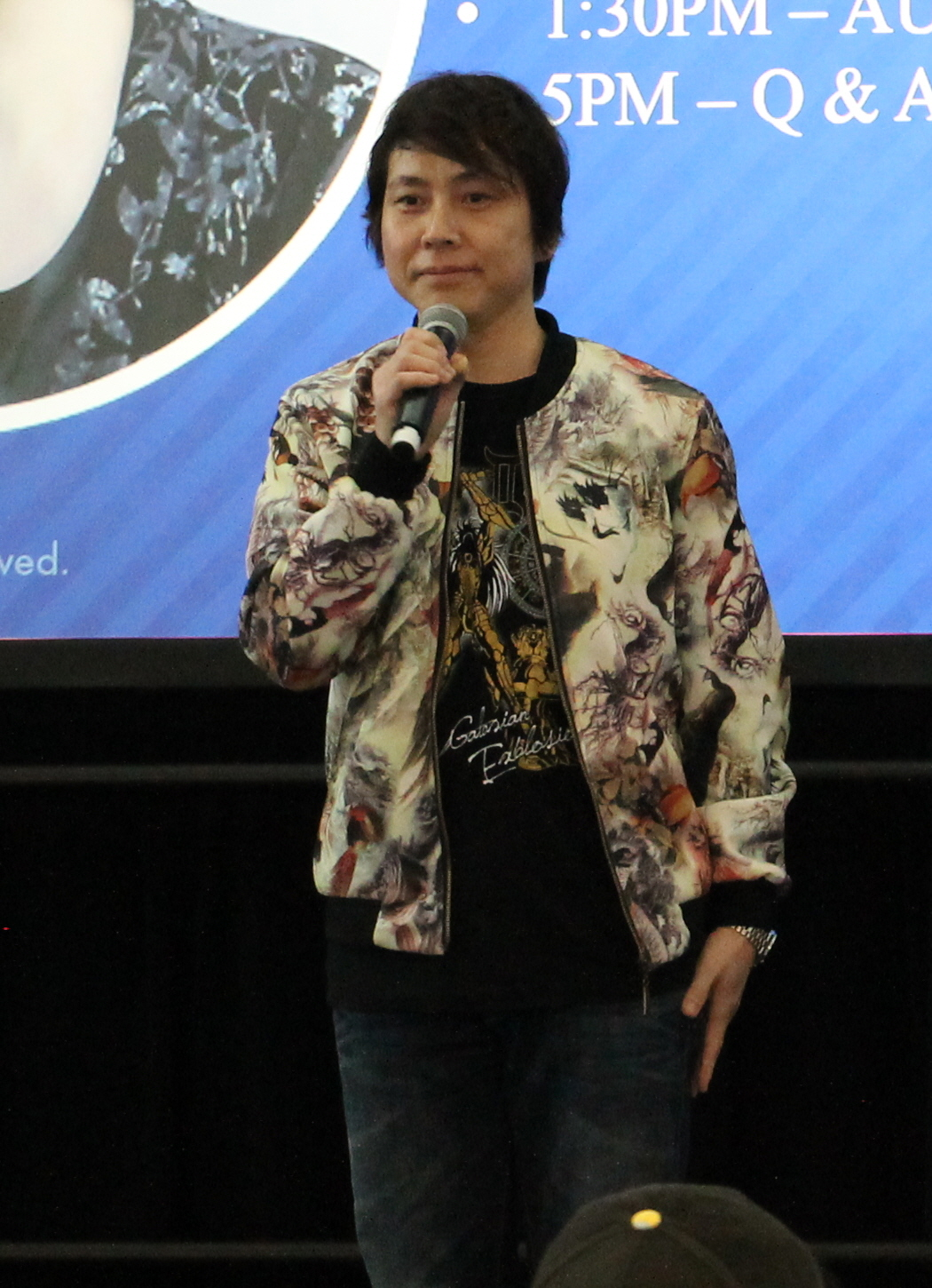 Ryotaro Okaiyu at FanimeCon 2018